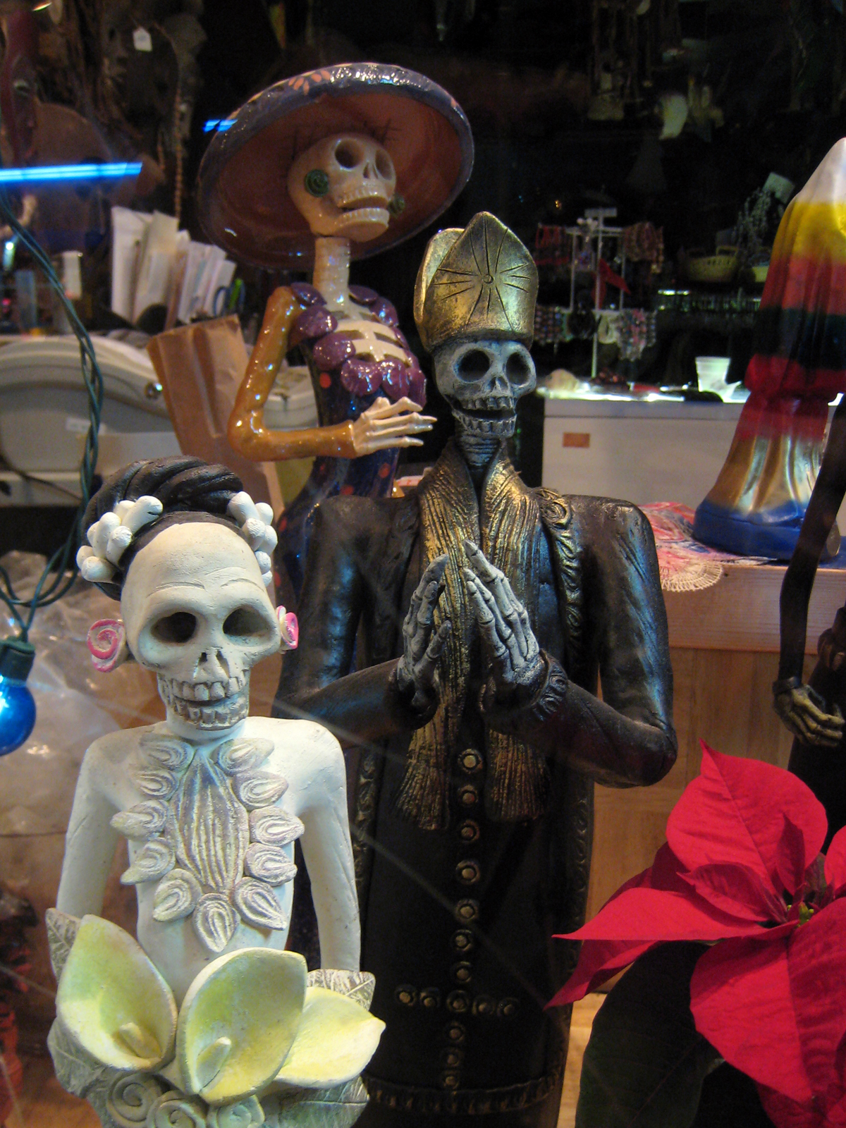 day of the dead calaca, Albuquerque NM, 12/7/2007